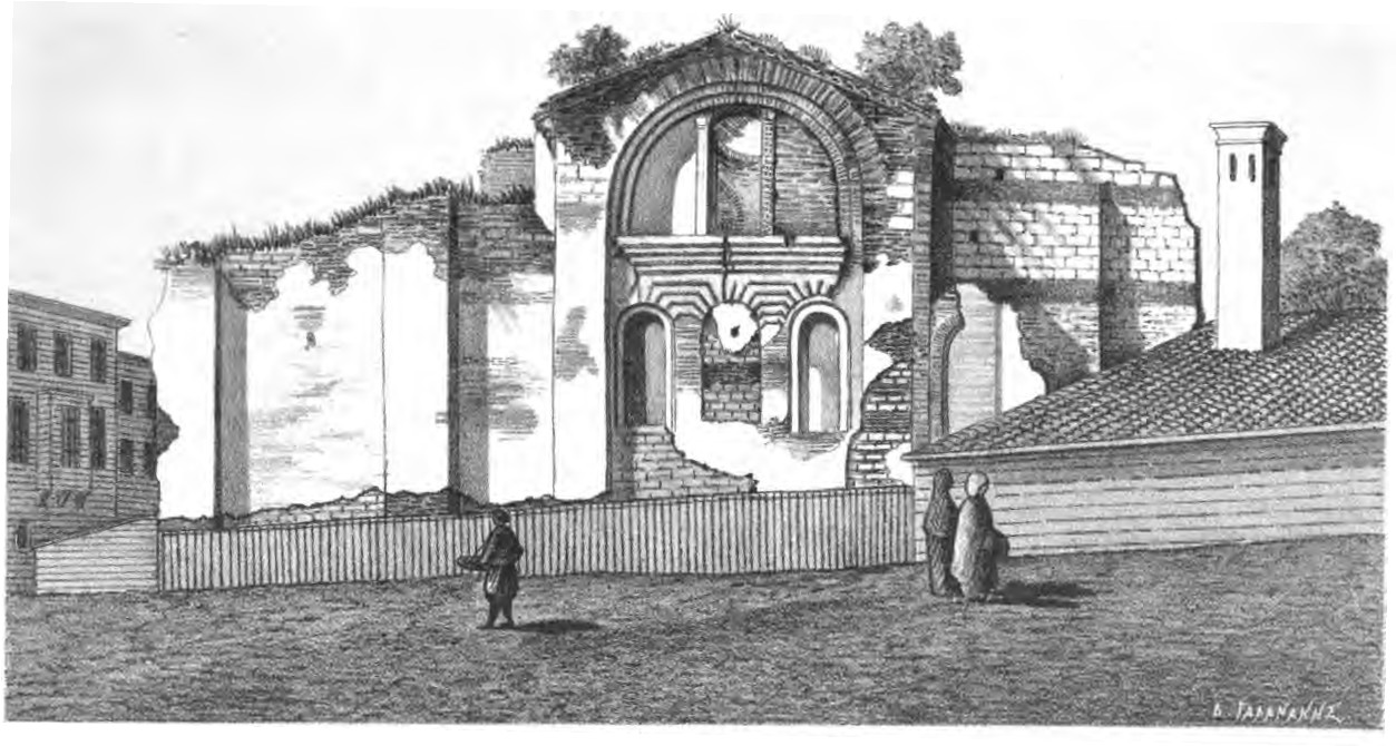 The Şeyh Murat Mescidi, converted from an unidentified Byzantine church, in Istanbul. From A. G. Paspates' Byzantinai meletai topographikai (1877) Author: Paspatēs, Alexandros Geōrgiou, 1814-1891. [from old catalog] Subject: Inscriptions, Greek Year: 1877 Possible copyright status: NOT_IN_COPYRIGHT Language: English Digitizing sponsor: Google Book contributor: Oxford University Collection: europeanlibraries